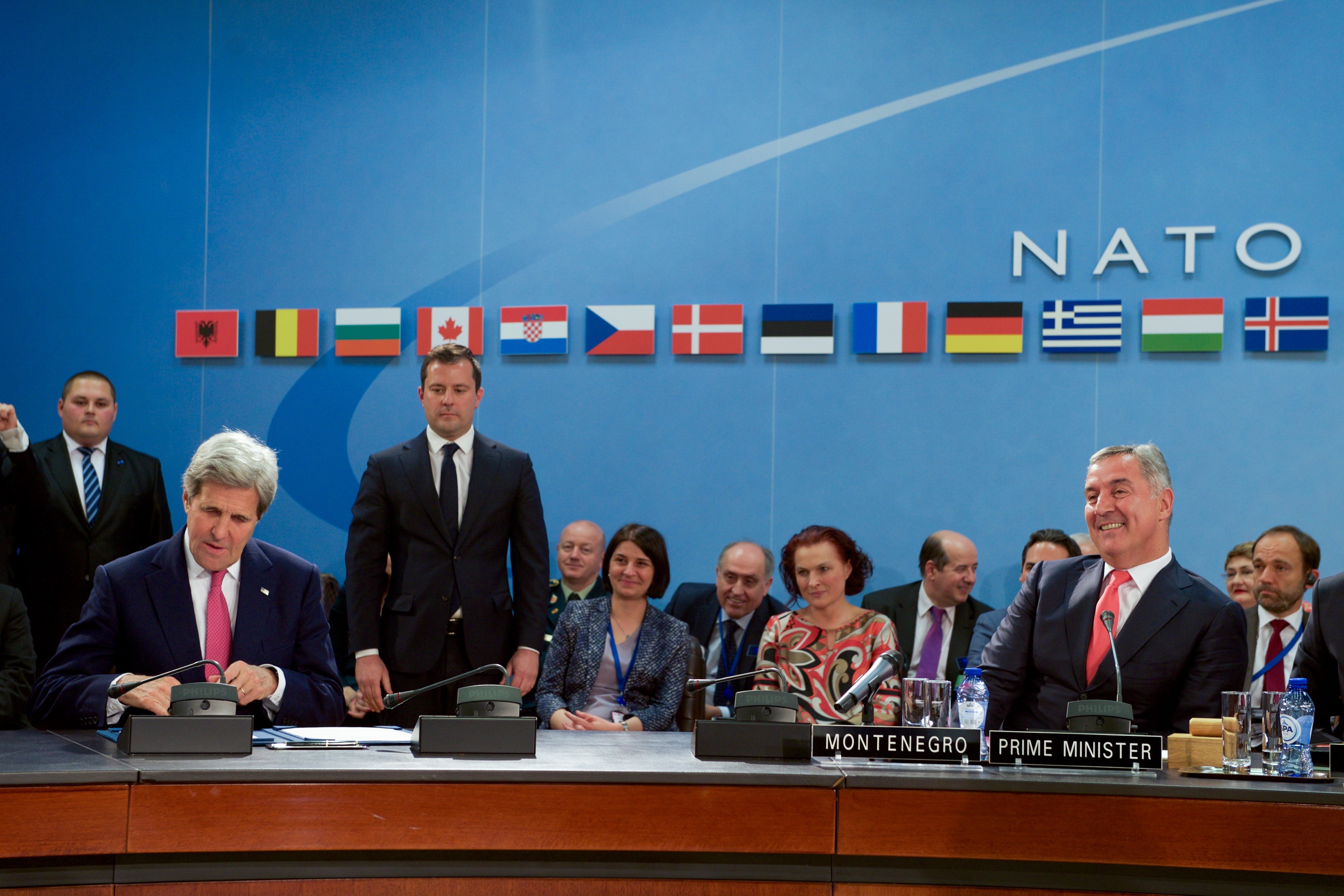 U.S. Secretary of State John Kerry, watched by Montenegrin Prime Minister Milo Djukanovic, puts the cap back on his pen after signing an Accession Protocol to continue Montenegro's admission to the North American Treaty Organization amid the biannual Foreign Ministerial Meetings on May 19, 2016, at NATO Headquarters in Brussels, Belgium. [State Department photo/ Public Domain]